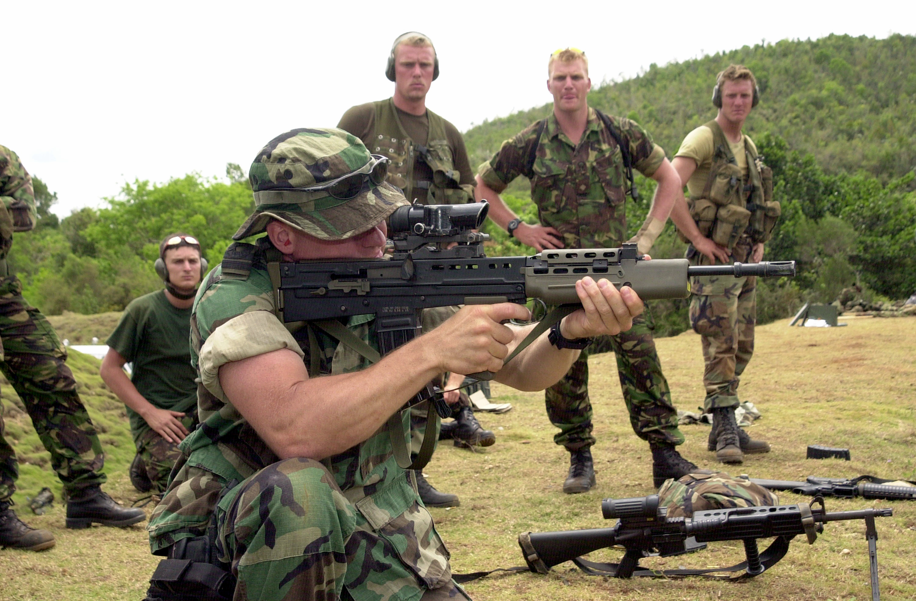 Royal Netherlands Marine Corps Capt. Charles Suilen (kneeling prone position), attached to the U.S. Marine Corps 4th Marine Expeditionary Brigade, Camp Lejuene, N.C., fires an SA-80 (Small Arms for the 1980s) assault rifle down range at Sierra Prieta, Dominican Republic, on April 20, 2004, during unilateral training at the Joint Task Force Tradewinds 04 Multinational Training Exercise.